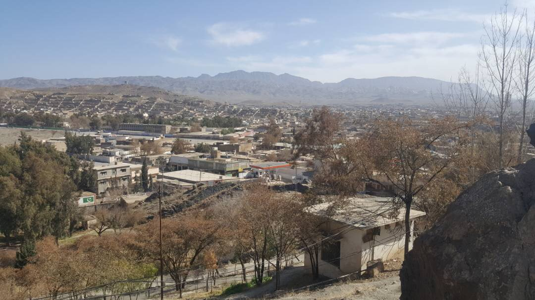 Zhob evening